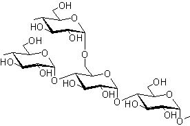 Structure of amylopectin